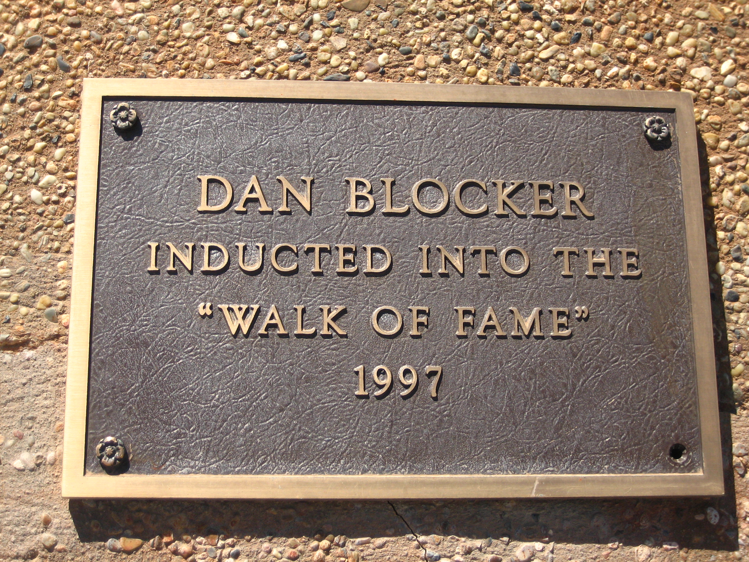 I took photo on April 3, 2009.Billy Hathorn (talk) 22:36, 11 April 2009 (UTC)